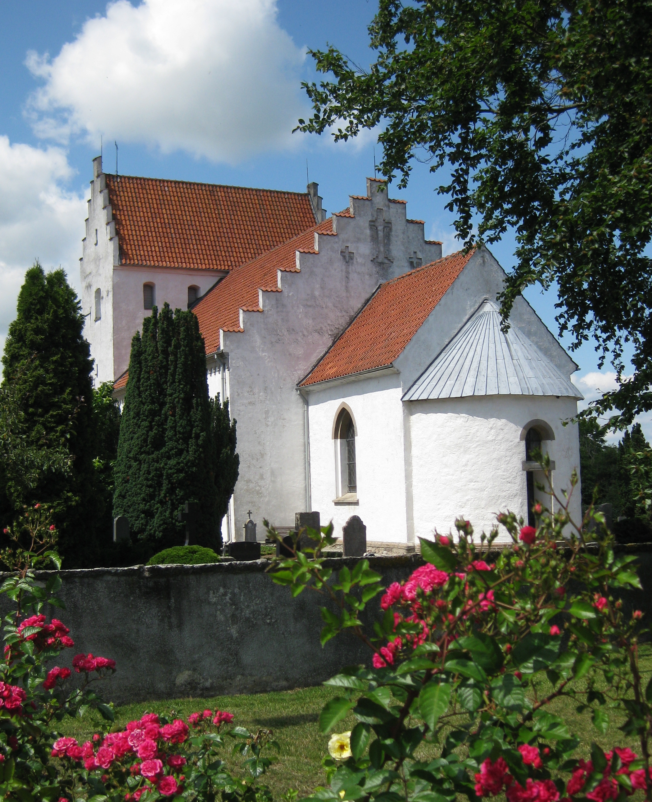 Simris church in Scania, Sweden